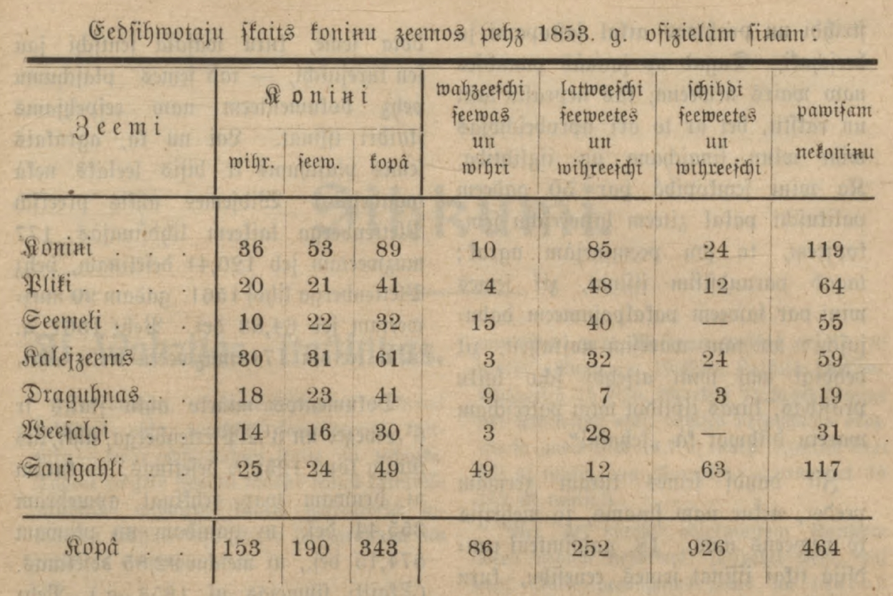 Inhabitants count in the villages of Curonian Kings after official sources of 1853